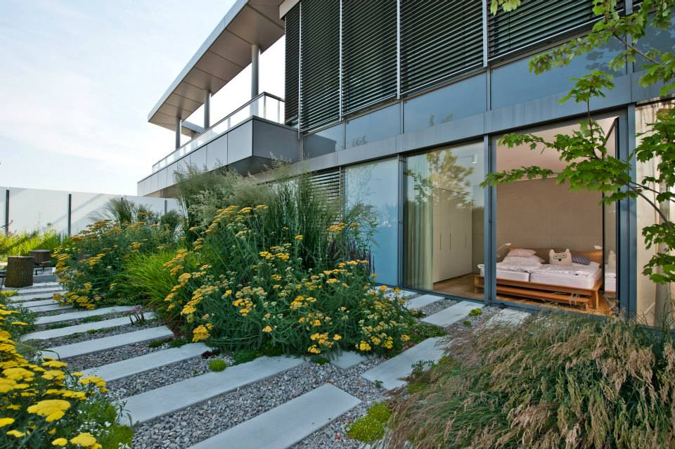 Roof Garden in Eurovea Shopping Centre in Bratislava